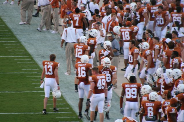 UT players along the sideline prior to TCU at Texas